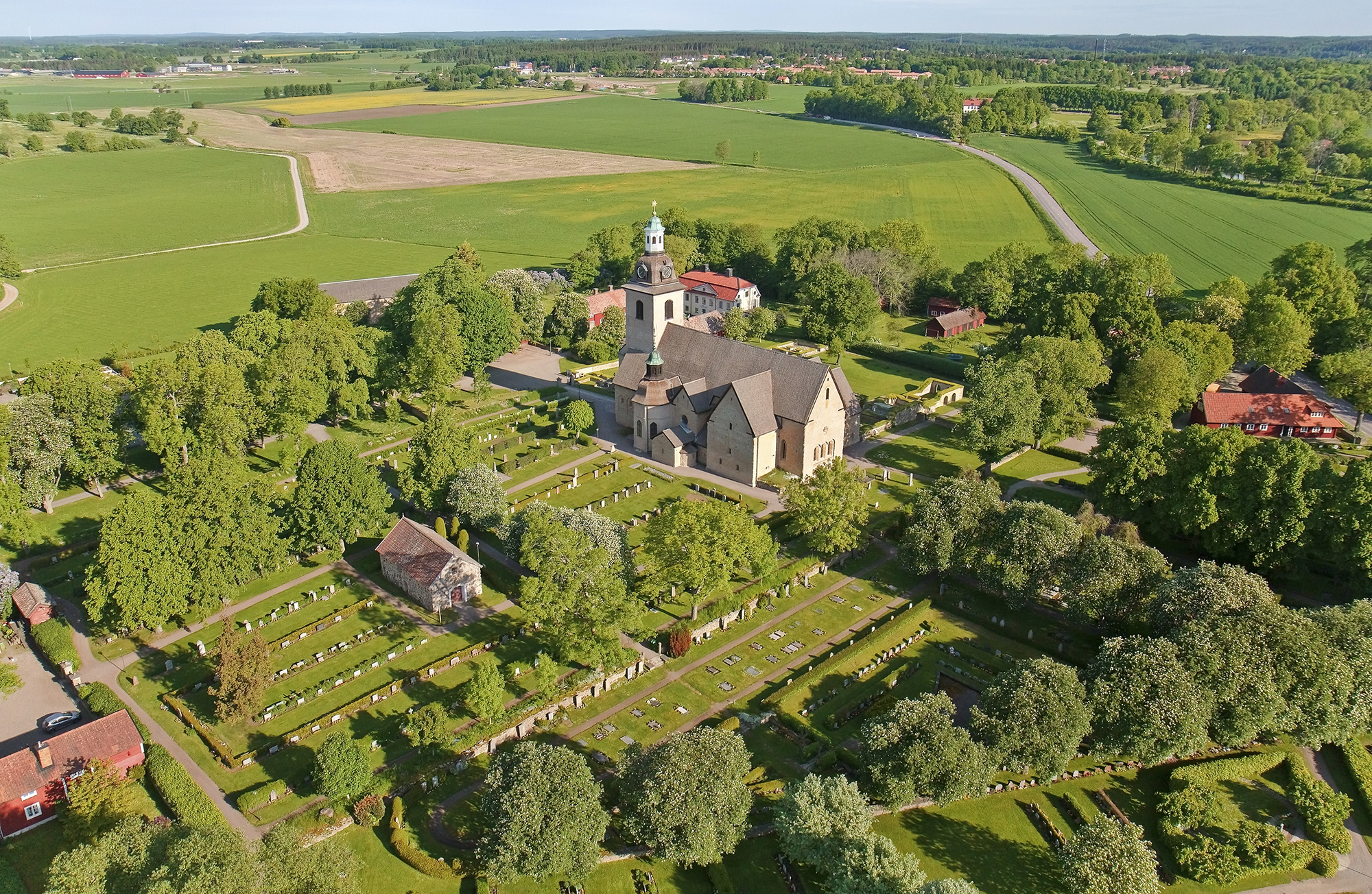 Vreta Abbey Church and the site of the historic Vreta Abbey in operation from the beginning of the 12th century to 1582. Linköping Municipality, Östergötland County, Sweden. Vreta Abbey's remaining church now belongs to the Church of Sweden.